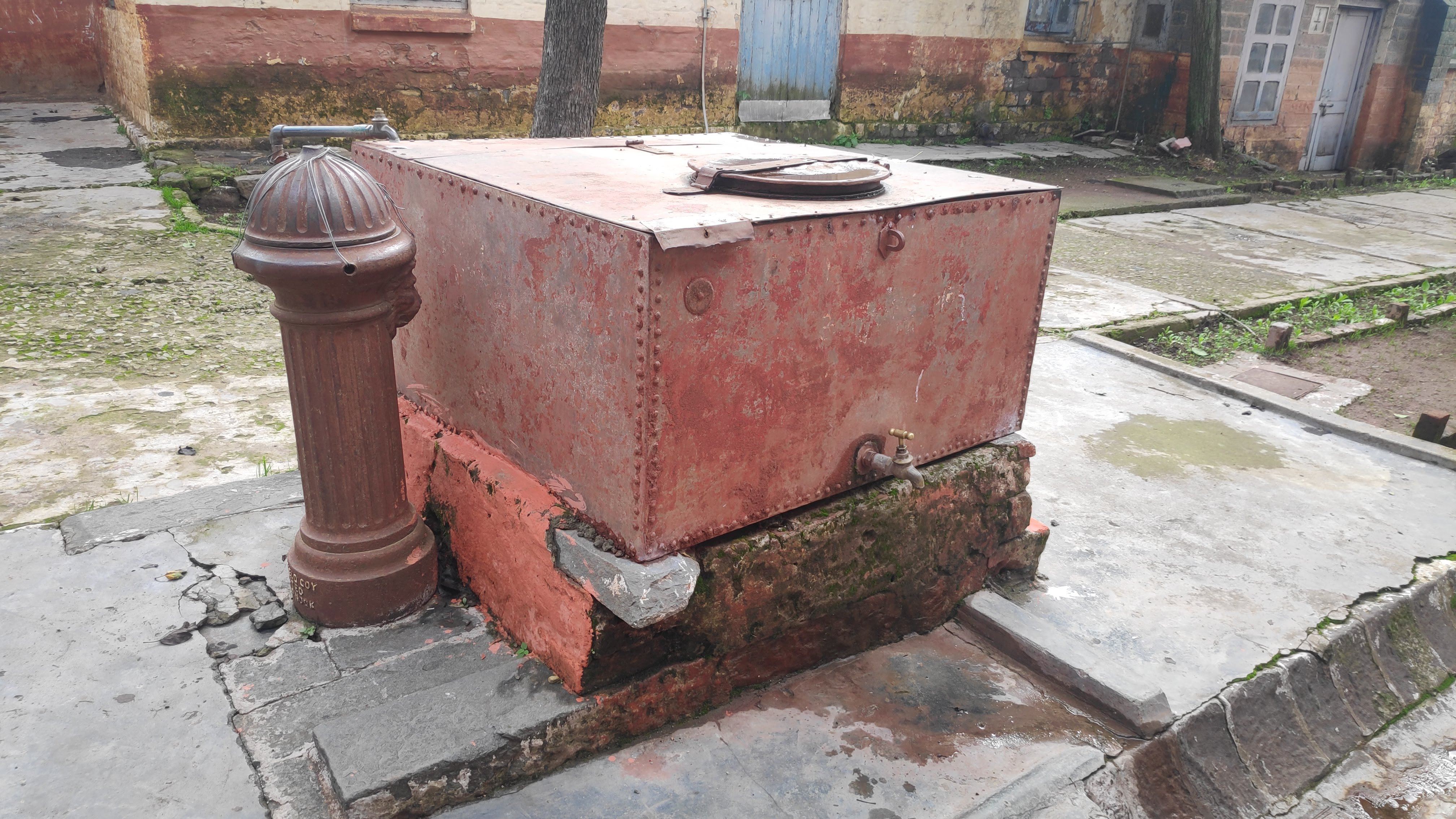 Dagshai Jail Museum fire hydrant (1865)